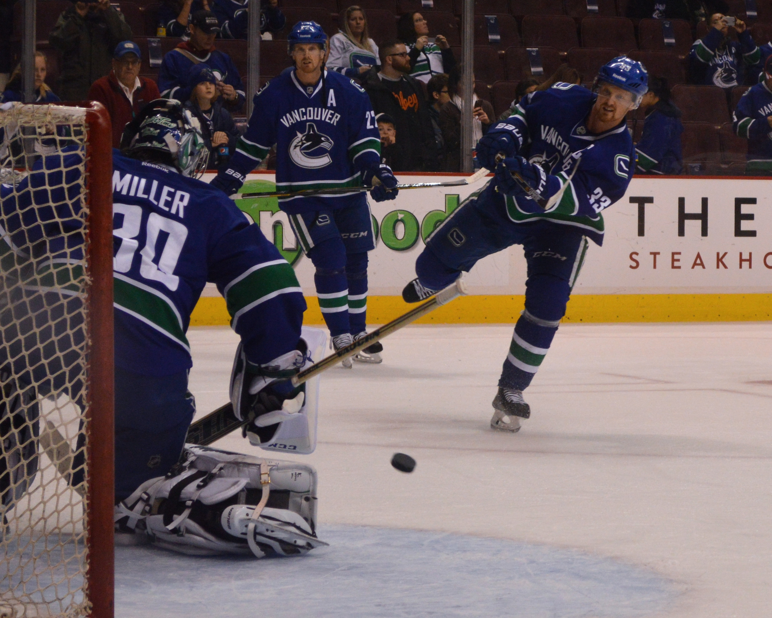 Vancouver Canucks captain Henrik Sedin takes a shot against goaltender Ryan Miller (winger Daniel Sedin in the background) during warm-up prior to a game against the Winnipeg Jets at Rogers Arena on February 3, 2015.